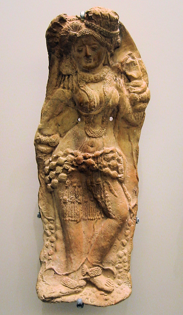 Sunga fecondity deity. Chandraketugarh. Sunga 2nd-1st century BCE. Musée Guimet. Personal photograph.